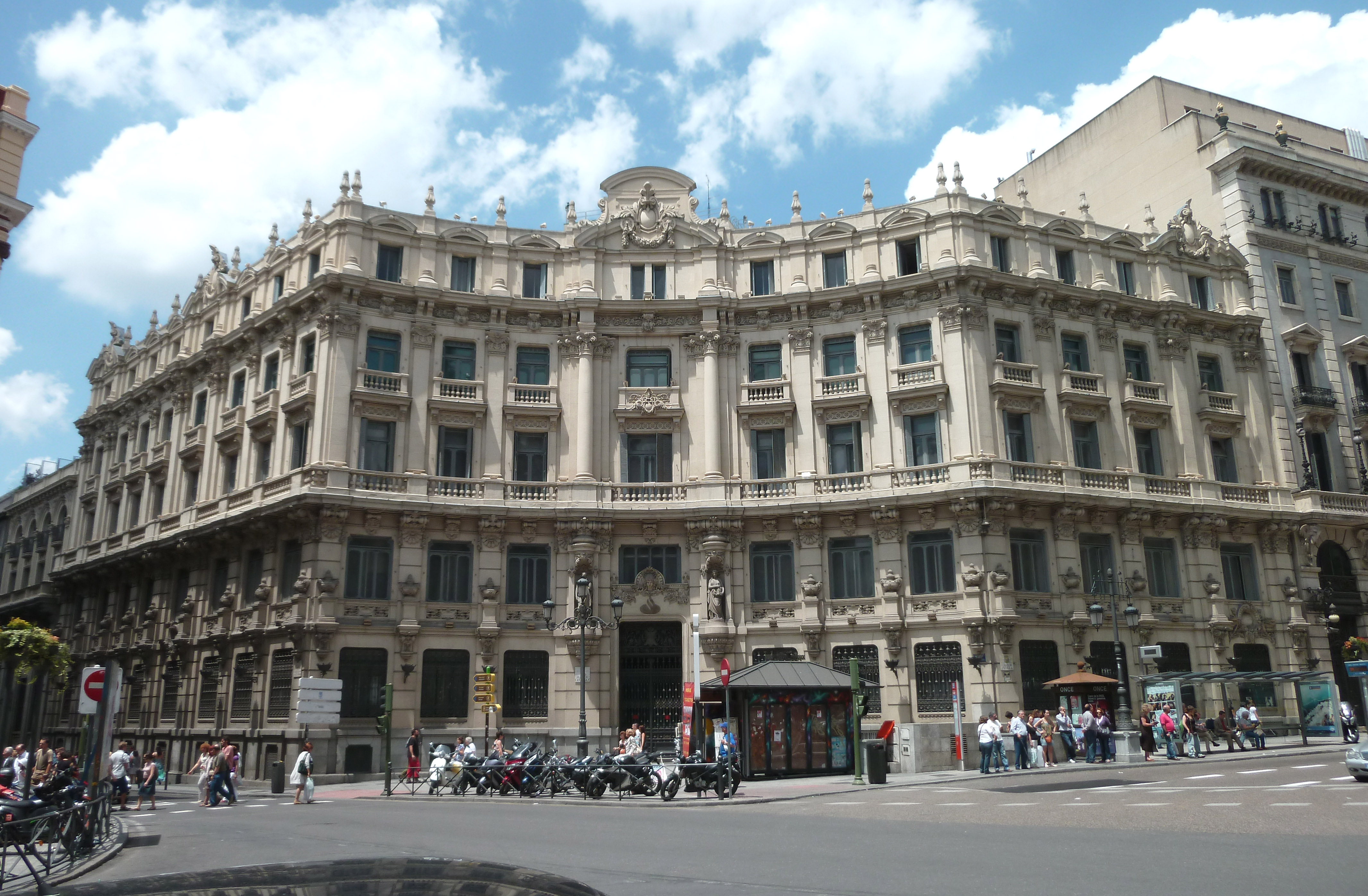 Façade of the former Banco Hispano Americano building in Madrid (Spain).